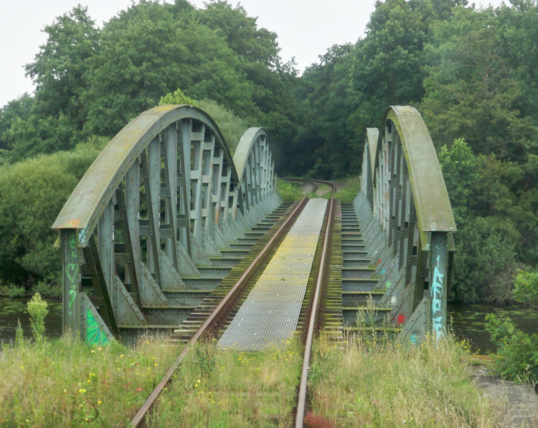 Worpswede, Lower Saxony, railway bridge across Hamme river